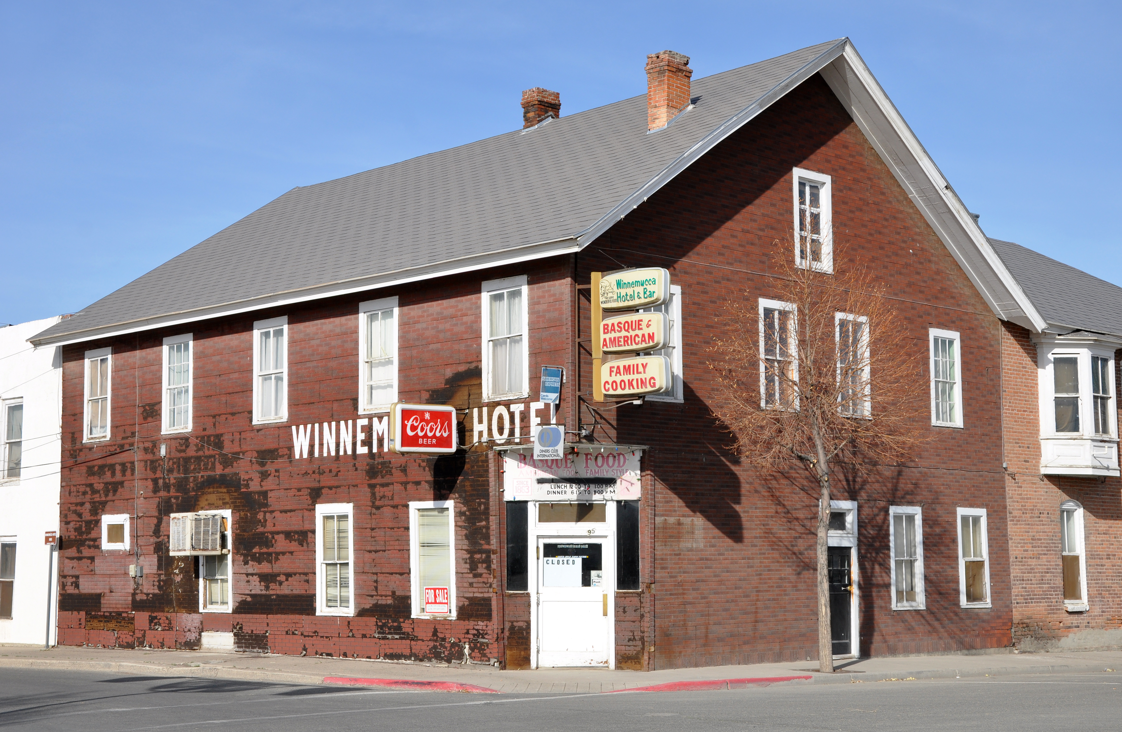 Winnemucca Hotel in Winnemucca in the U.S. state of Nevada.